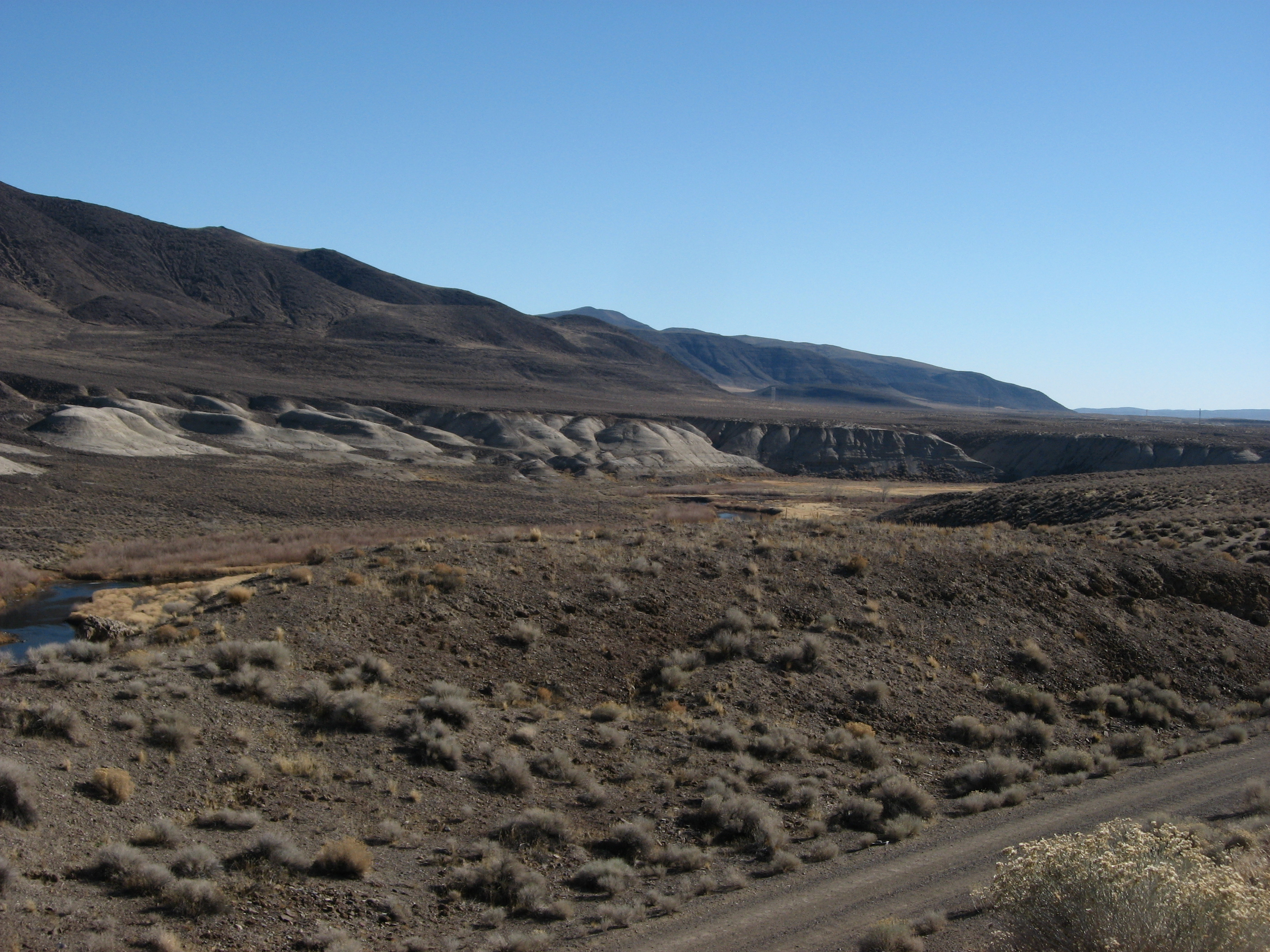 State Route 447 (SR 447) is a state highway in the U.S. state of Nevada. The highway is almost entirely within Washoe County but does for a brief time enter Pershing County, Nevada.